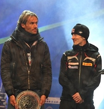 Sven Hannawald and Adam Małysz during Adam's Bull's Eye on 26 March 2011 in Zakopane.